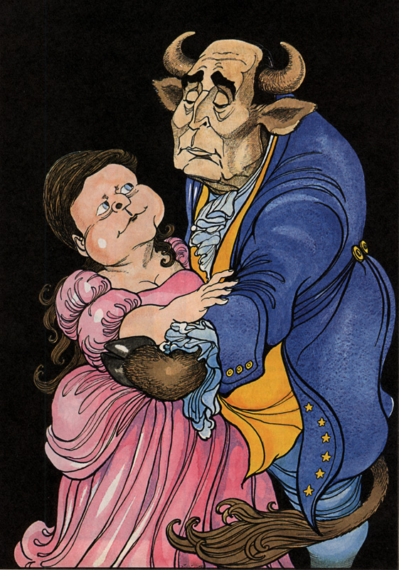 When Norway was debating entrance into the EU, Europabevegelsen (The Europe Movement) published a pamphlet with the title ”The Beauty and the Beast?”. Norwegian prime minister Gro Harlem Brundtland is seen dancing with president Francoise Mitterand. The hesitant voters would be persuaded to vote "aye" by depicting the opponents's statements about EU as scare propaganda.